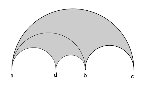 Diagram of an ideal hyperbolic triangle and its reflection in one side